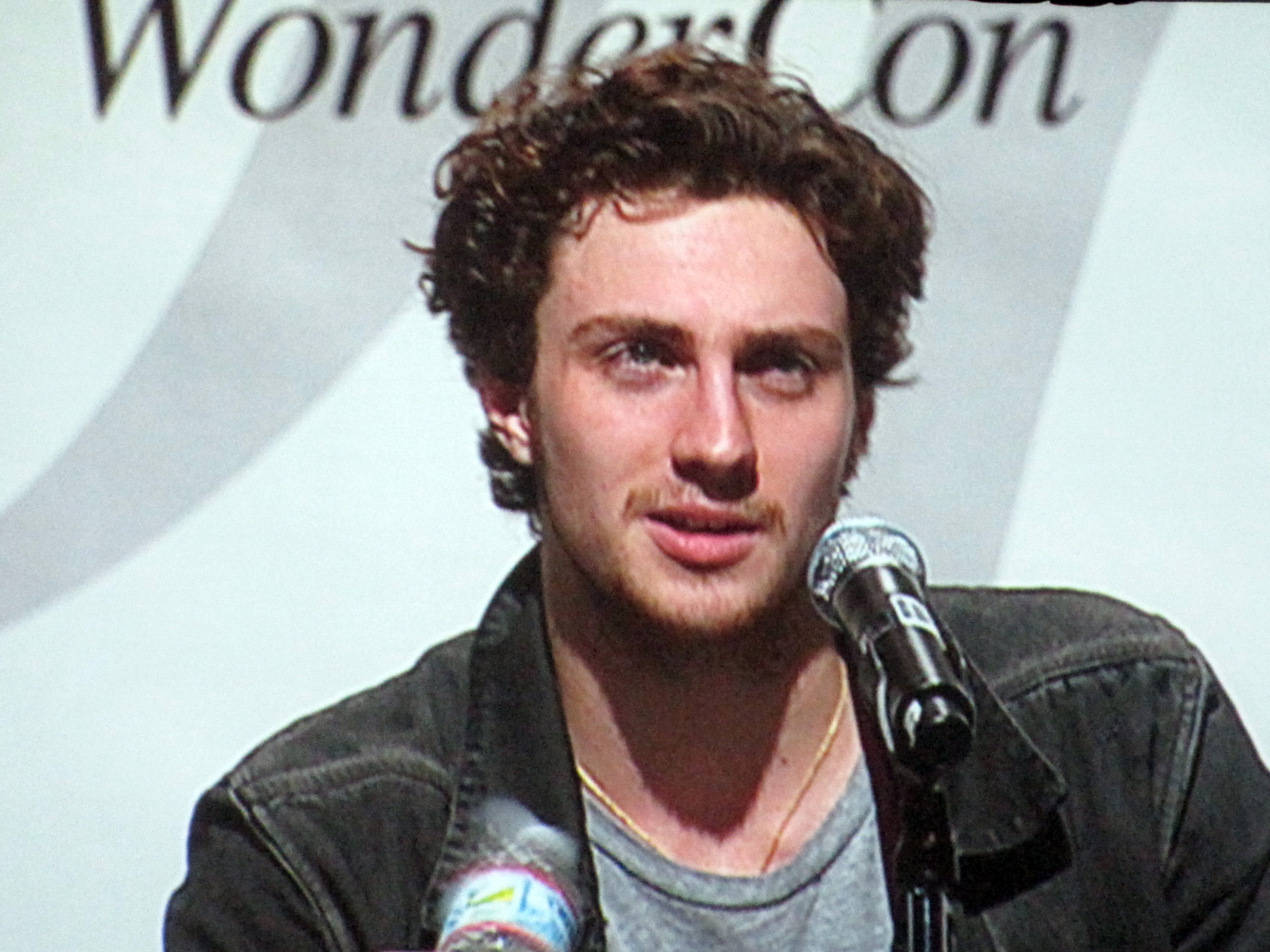 Actor Aaron Johnson participating in the Kick-Ass film panel at WonderCon 2010.